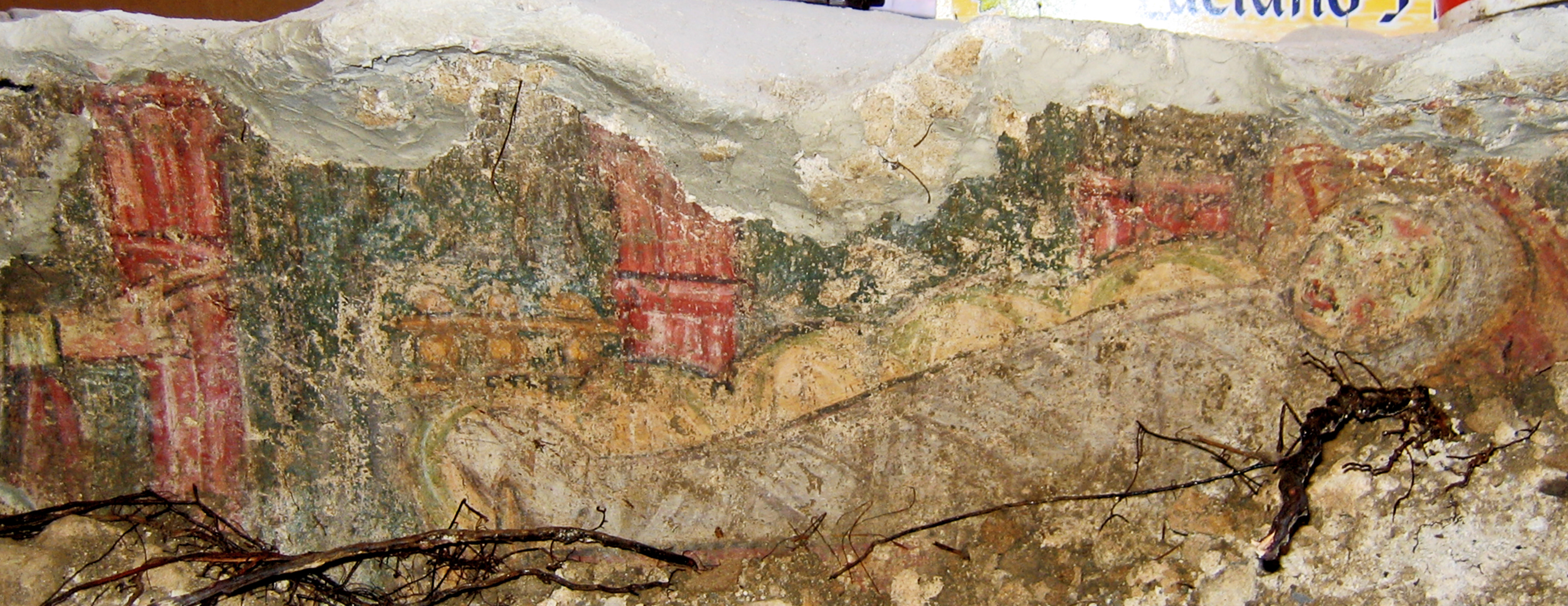 Crypt of San Marco dei Sabariani, Benevento, Italy. Fresco of the Dormition of the Virgin Mary.